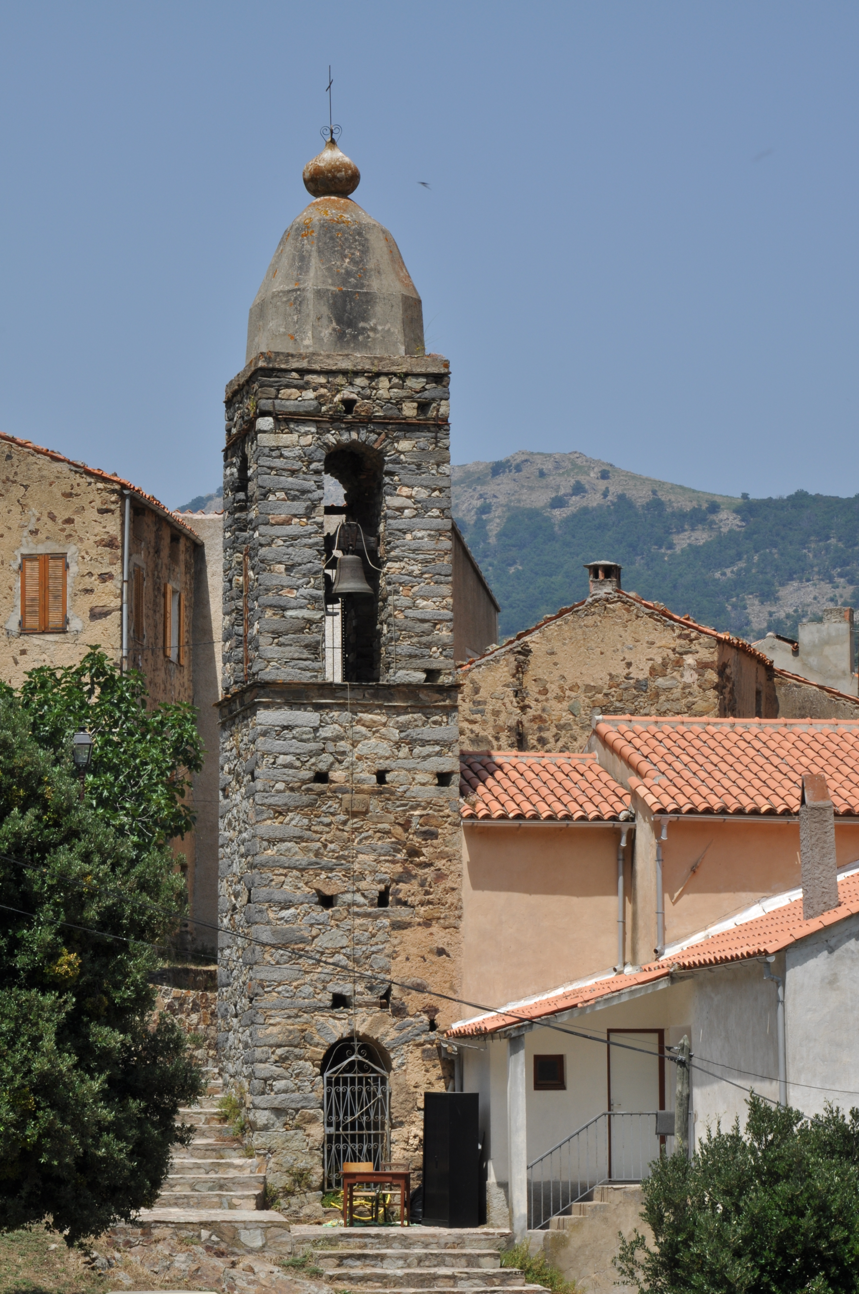 Church tower in Mausoléo